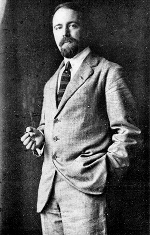 Dutch historian Pieter Geijl (Geyl) in London (1922)